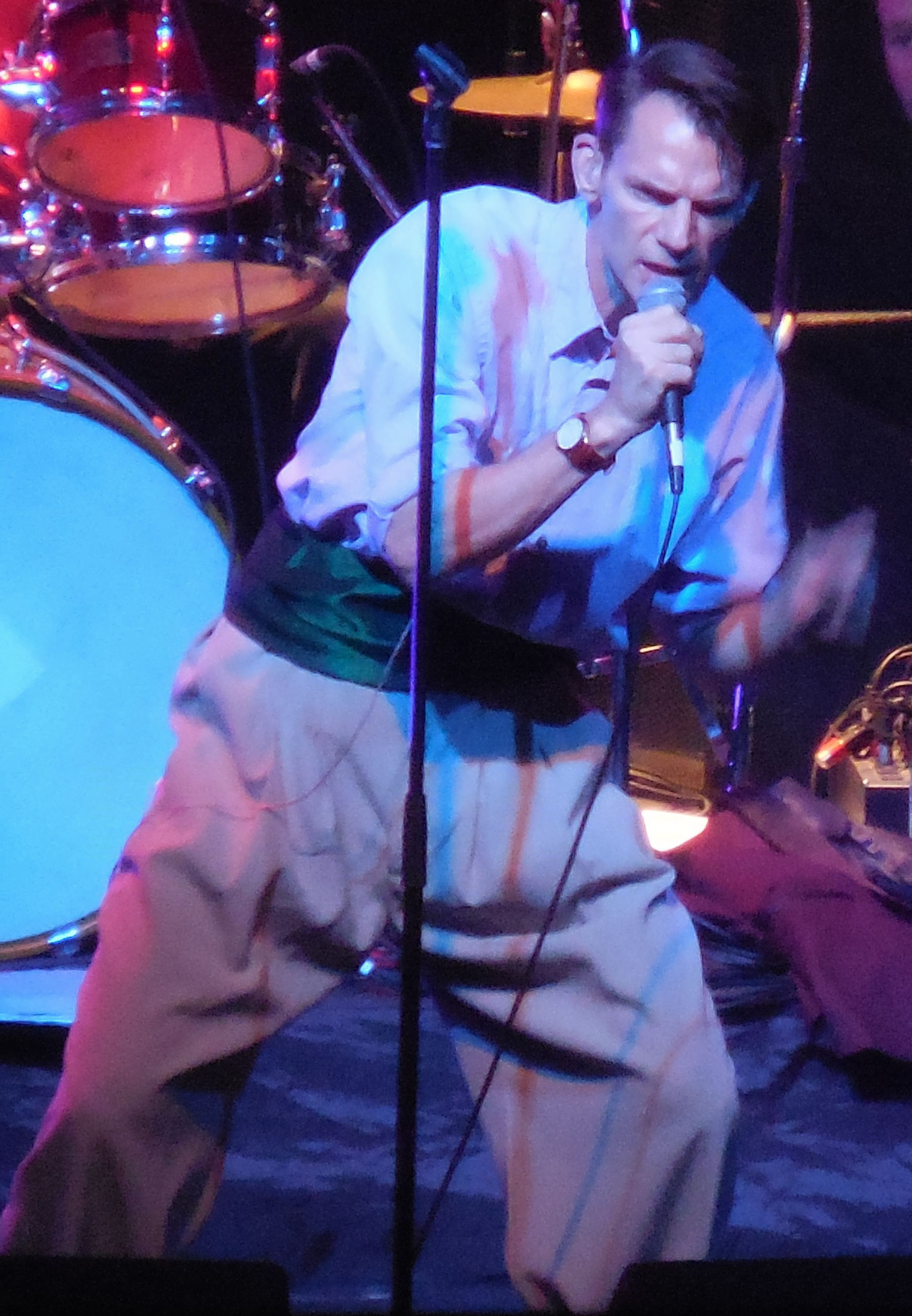 Paul Humphrey with Blue Peter, Phoenix, Toronto